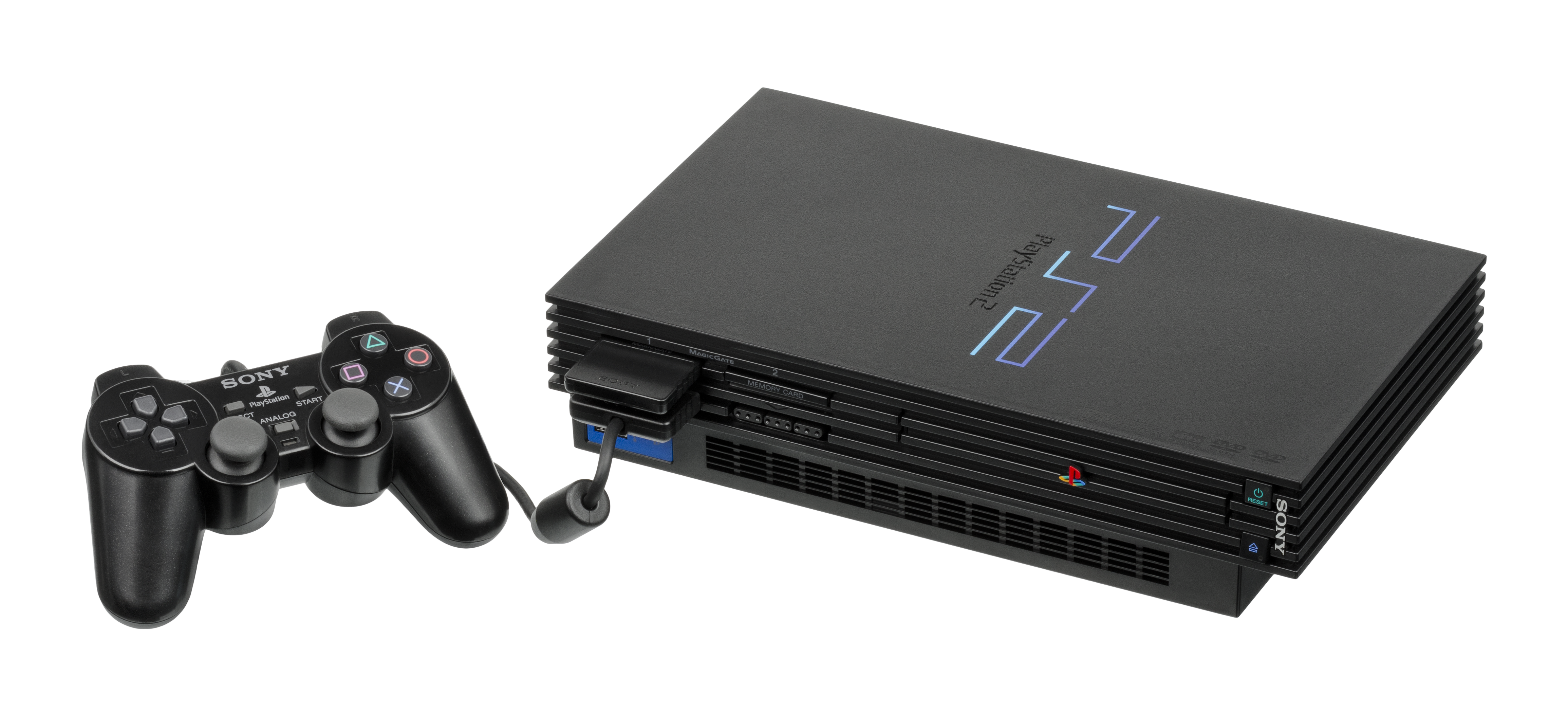 The Sony PlayStation 2 (PS2) video game console, shown with Dualshock 2 controller and 8MB memory card plugged in. First released in 2000, it is a sixth generation console and the follow up to the hugely successful PlayStation console. The system would continue the success, going on to become the highest selling video game console of all time.